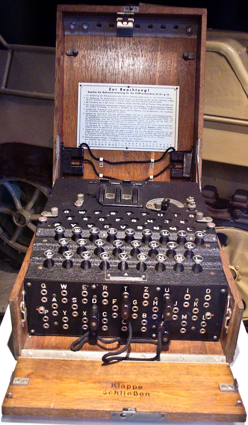 Enigma machine shown at the Swiss Transport Museum, Lucerne